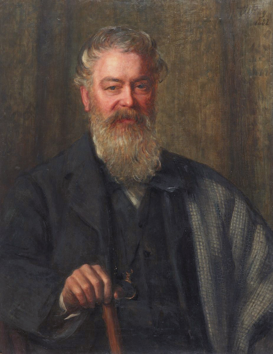 Edwin Waugh oil on canvas 91.4 x 71.2 cm signed t.r.: W Percy / 1882